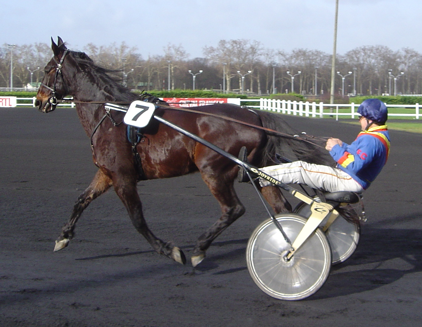 trot racing in Vincennes, France